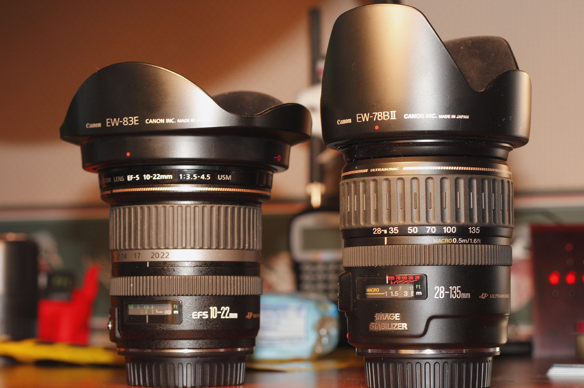 A Canon EF-S 10-22mm f/3.5-4.5 USM lens on the left and a Canon EF 28-135mm f/3.5-5.6 IS USM lens on the right